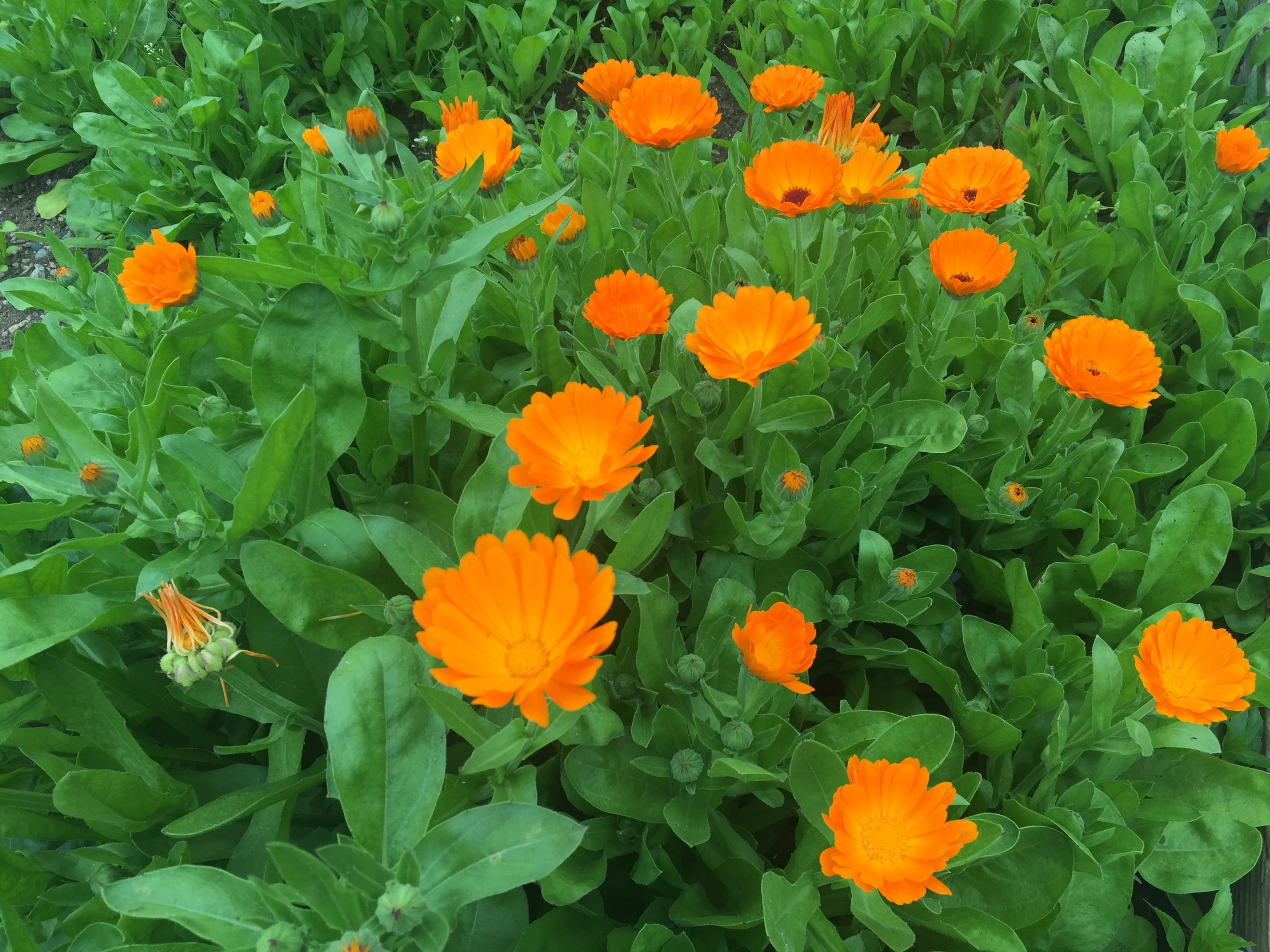 Common marigold at the UBC Botanical Garden in British Columbia, Canada.